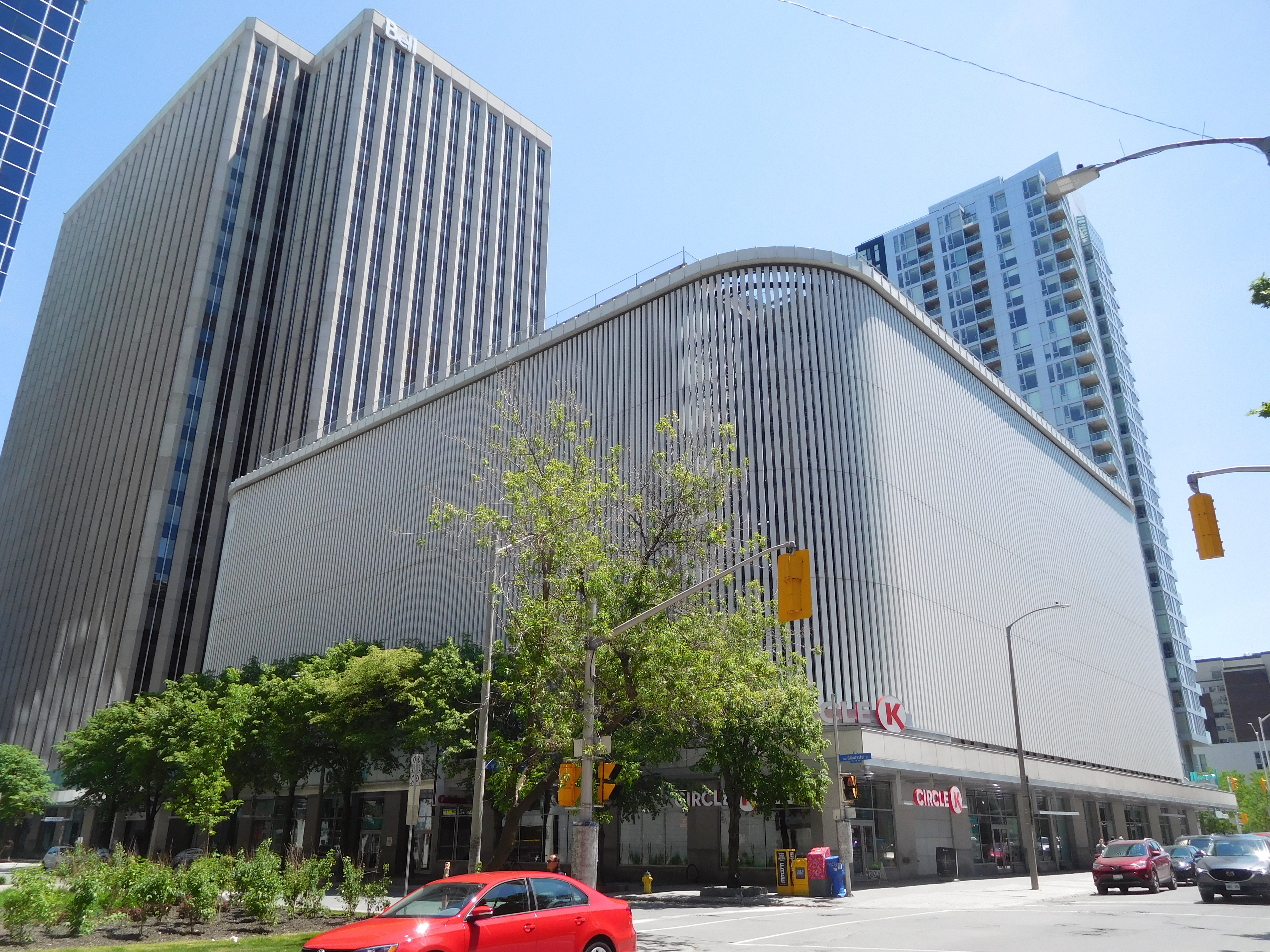 Place Bell Parking, at the corner of Gloucester and Metcalfe streets Ottawa